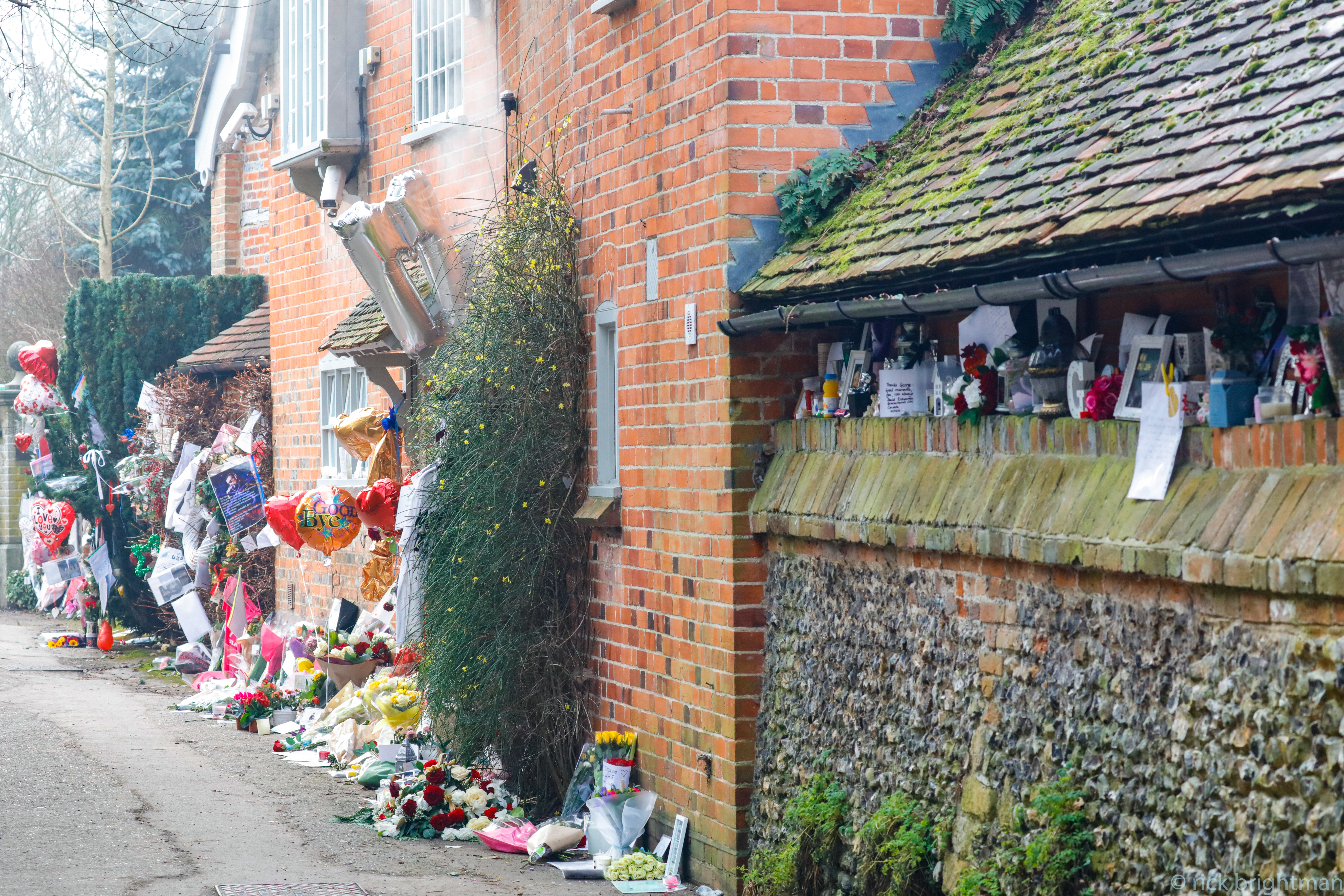 George Michael's house in Goring-on-Thames (South Oxfordshire, UK) after the singer passed away. Fans have left flowers on the ground.